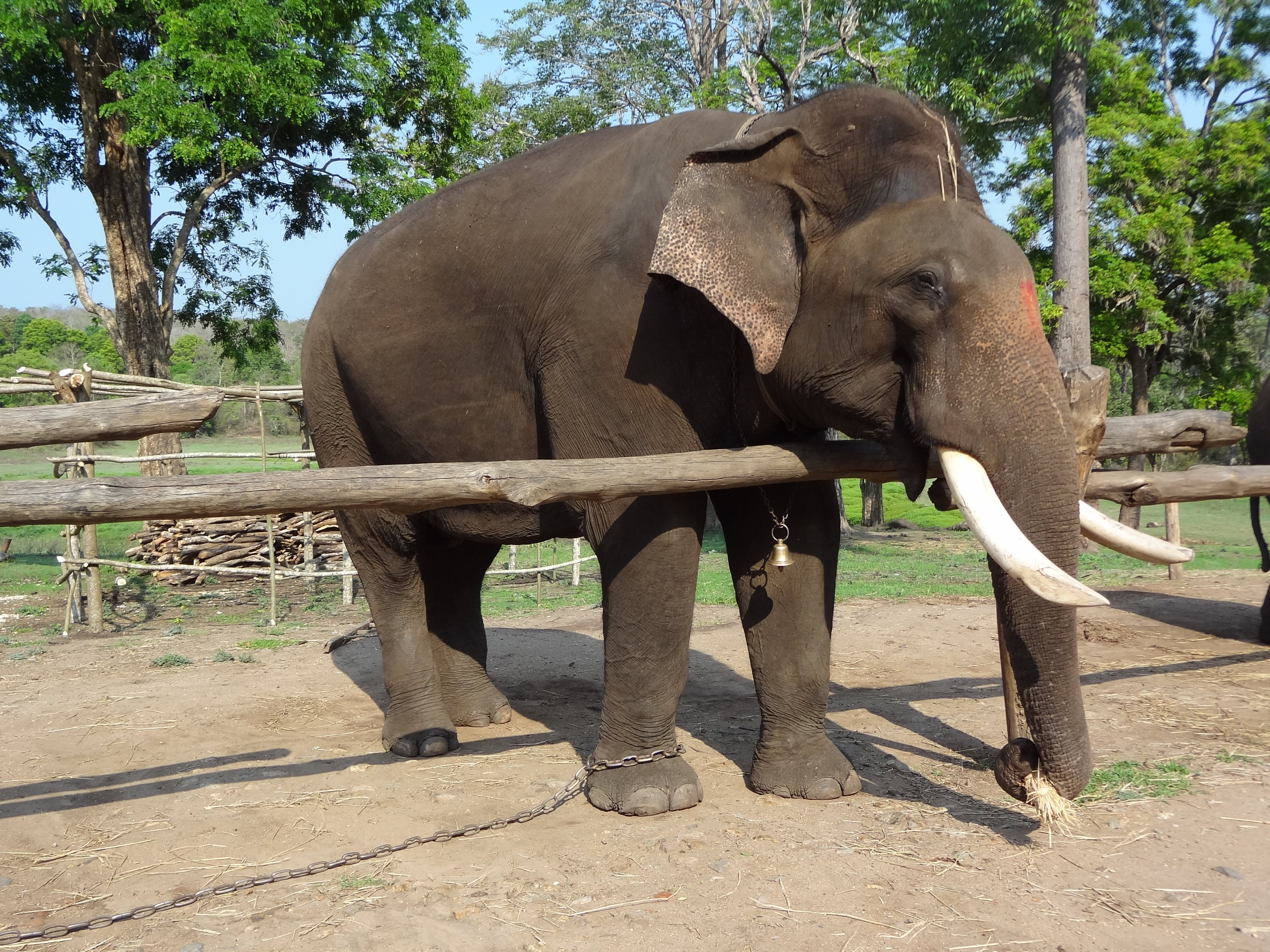 He leads the annual Dasara parade in Mysore